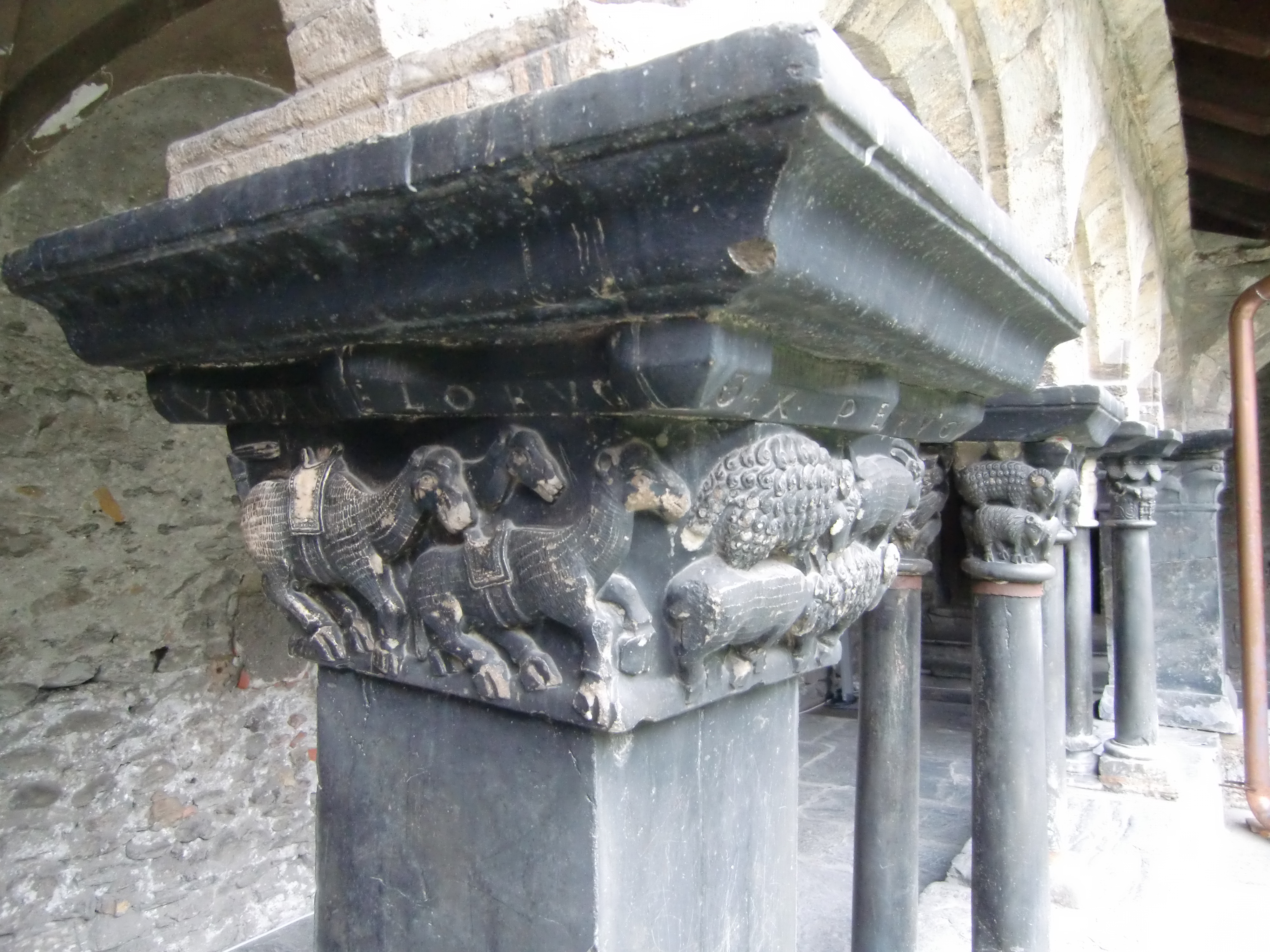 Aosta, cloister of "Collegiata di Sant'Orso", XII century, romanesque capital with the scene of Reconciliation of Jacob and Esau, in the presence of wives, children and flocks (Genesis 32-33)